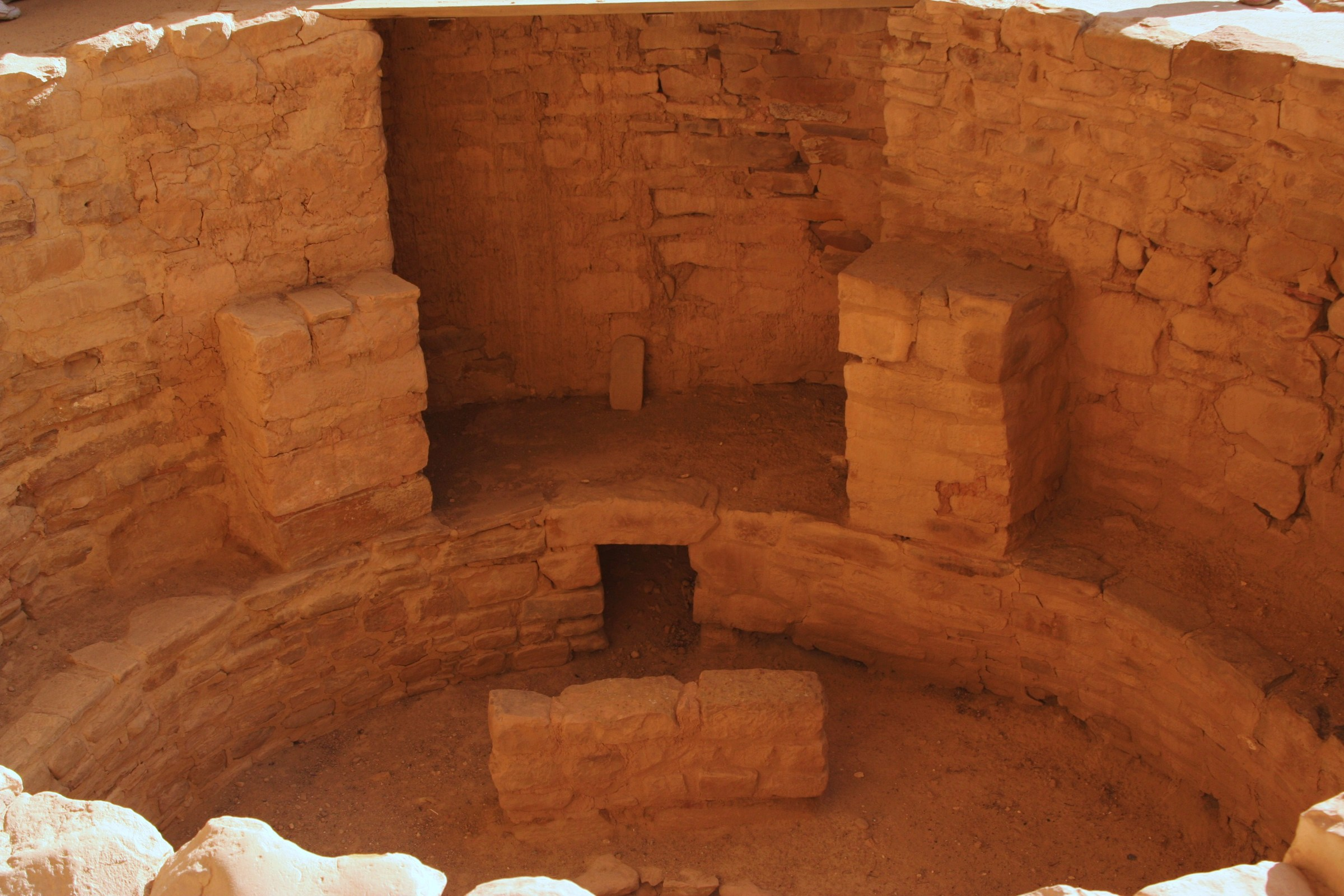 Anasazi Kiva in Mesa Verde National Park, USA